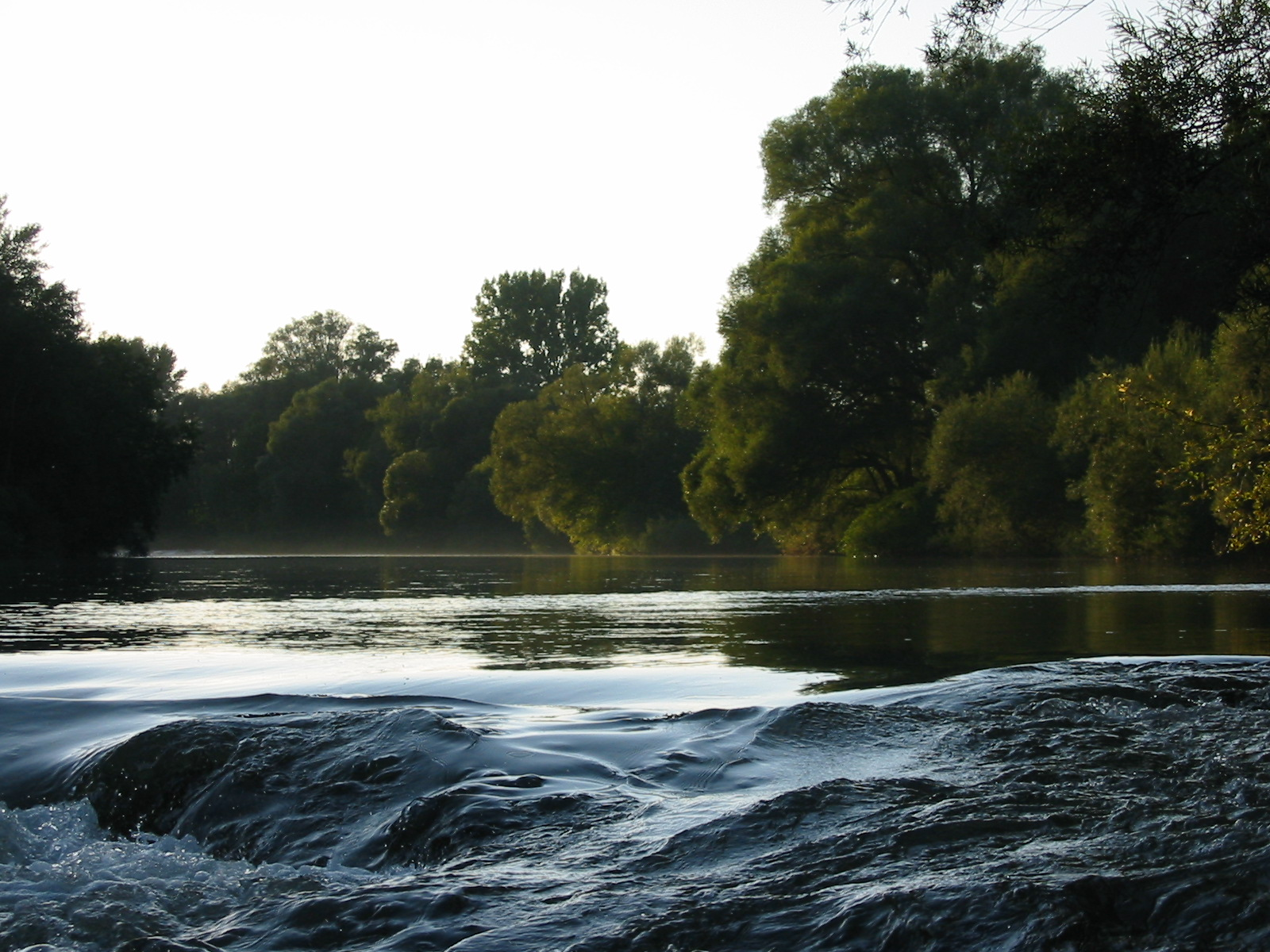 The Ybbs River, close to Amstetten, Greimpersdorf